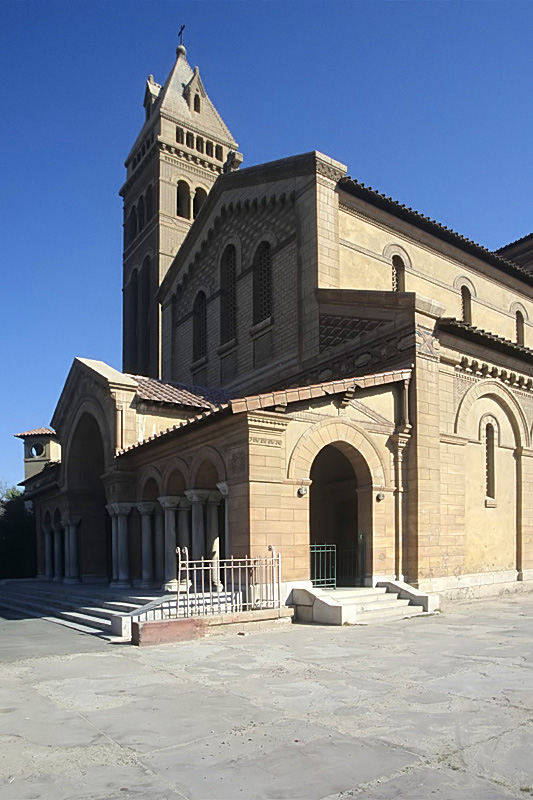 Coptic-catholic church of St. Mark, formerly church of the hl. Francis de Sales, Ismailia, Egypt